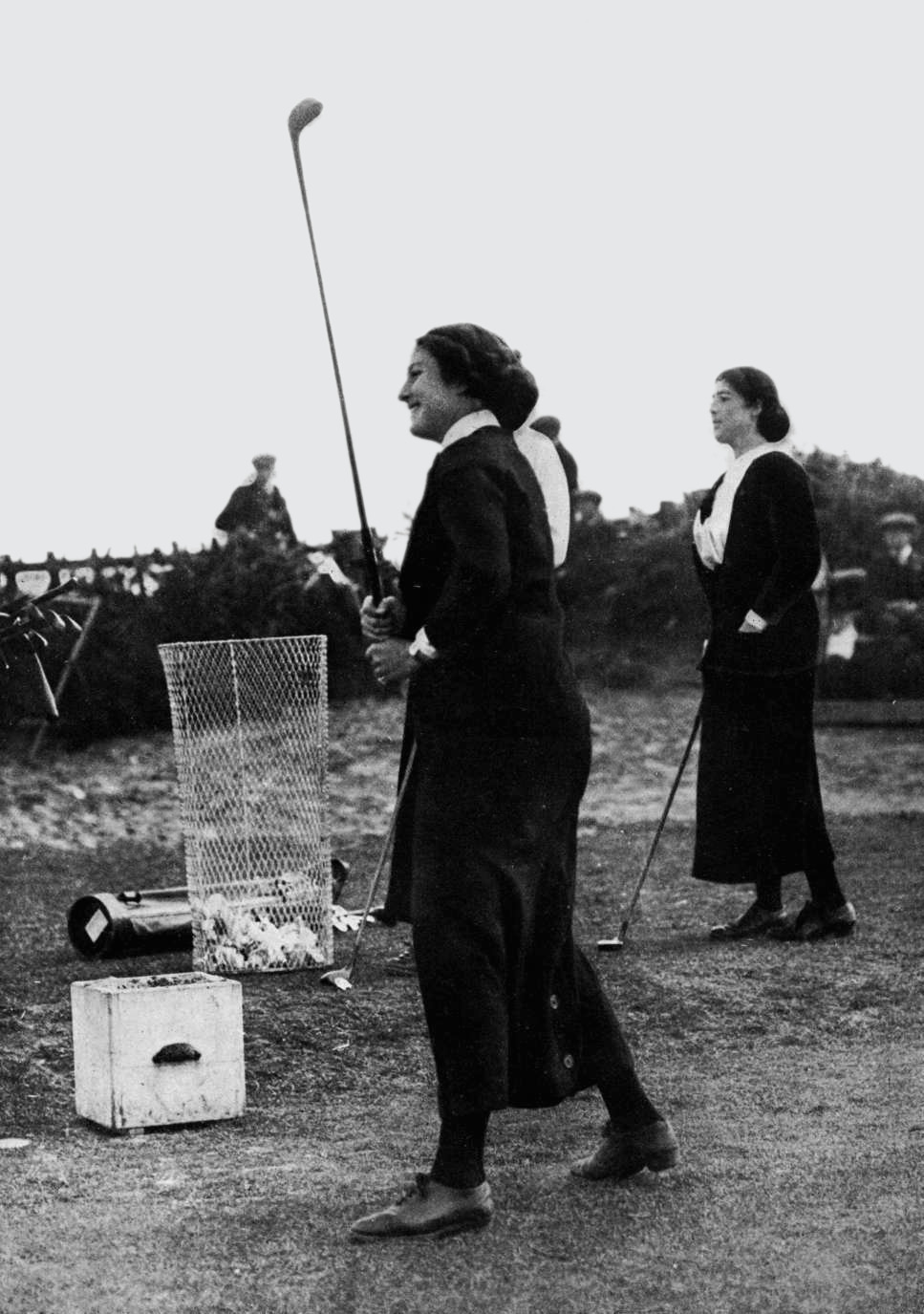 Cecil Leitch in 1914. The original caption read: "A recent photograph of Miss Cecil Leitch, who recently won the British Women's Championship by defeating Miss Gladys Ravenscroft."